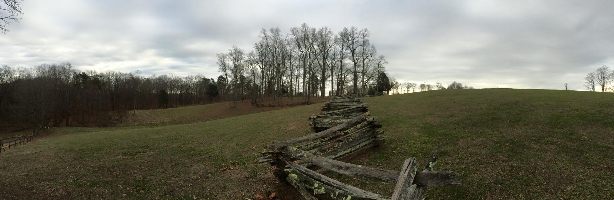 Site of the desperate fight at the fence between Confederate and Federalist lines at Mill Springs Battlefield. Zollicoffer monument in background